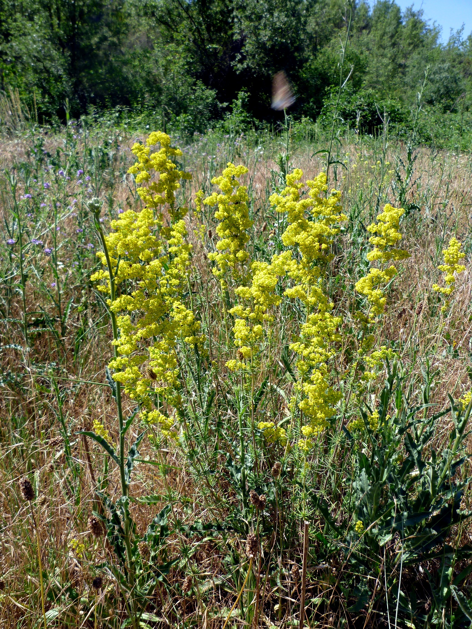 Galium verum. In Torà (Segarra- Catalunya). On 570 m. altitude